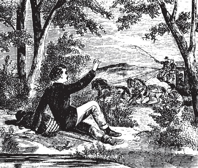 Cover of the reader published in 1875.